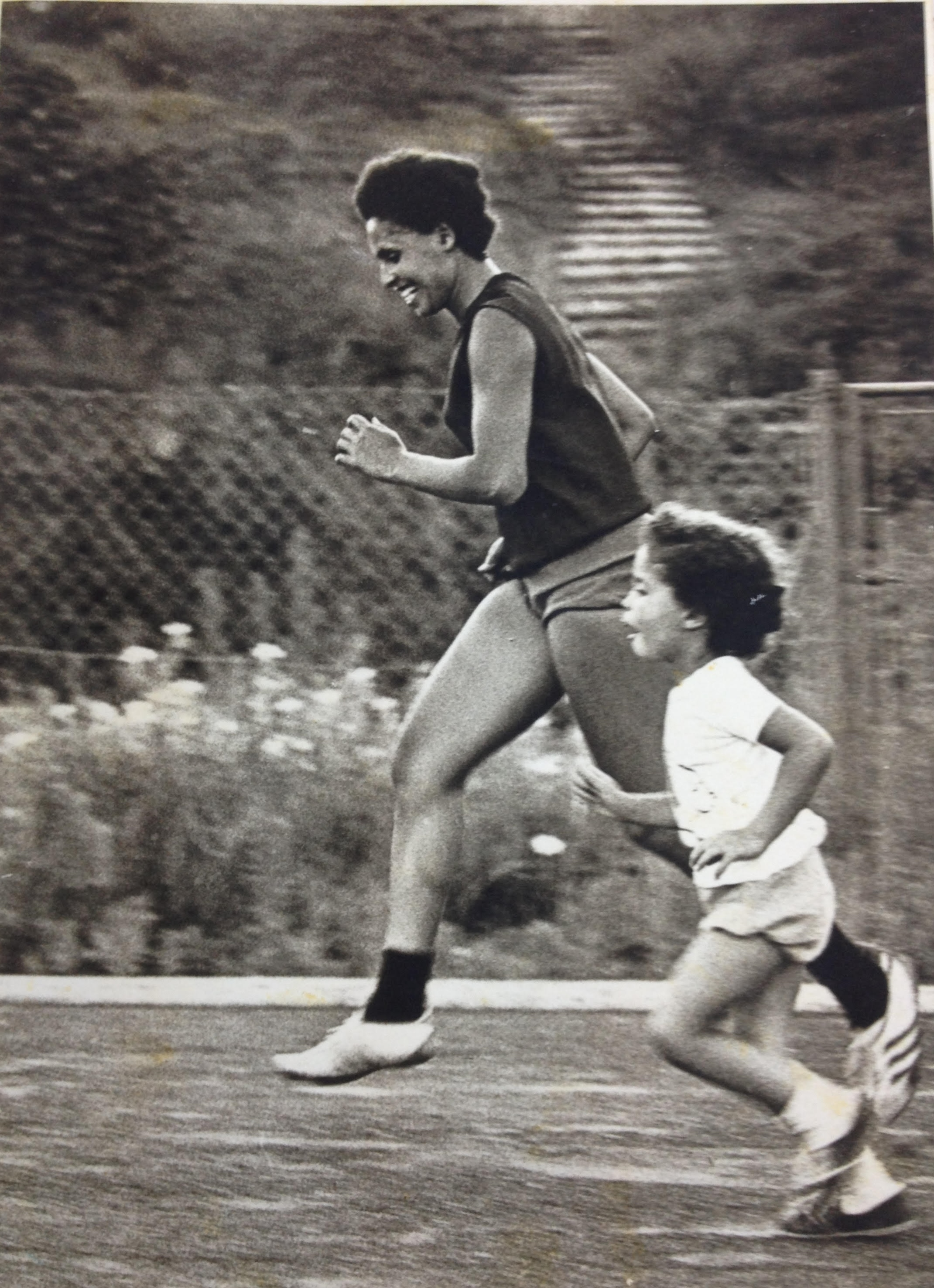 Miryam Sidrensky running with her daughter in Wingate Institute, taken between 1960 and 1965. Photograph taken by her coach Yossef Orion.